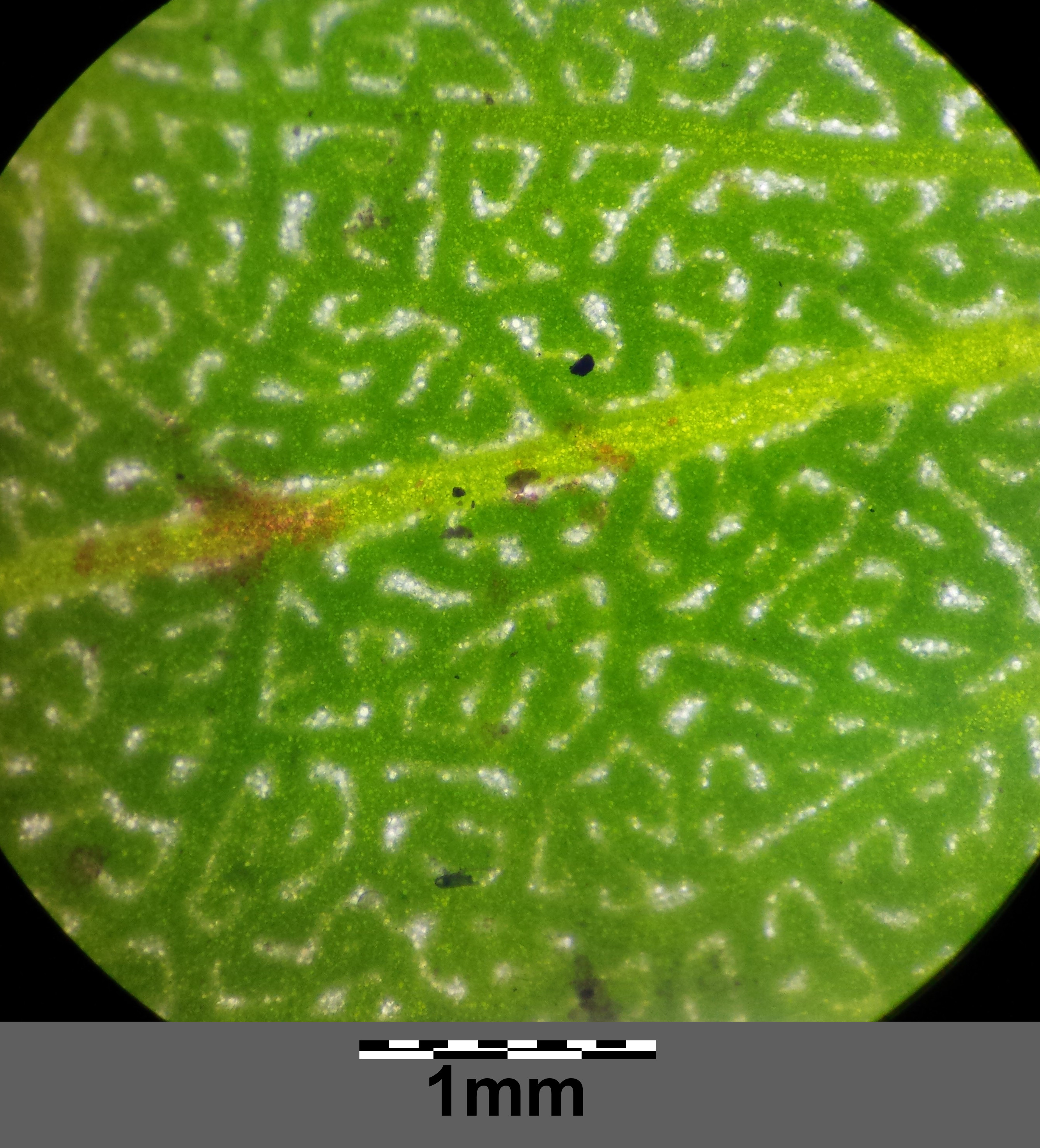 Leaf (with background lighting) with regular, tight branched veins of C4 plants Taxonym: Euphorbia maculata ss Fischer et al. EfÖLS 2008 ISBN 978-3-85474-187-9 Location: next to Mitterreith, district Zwettl, Lower Austria - ca. 500 m a.s.l. Habitat: heap of stones